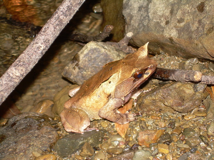 Megophrys ligayae